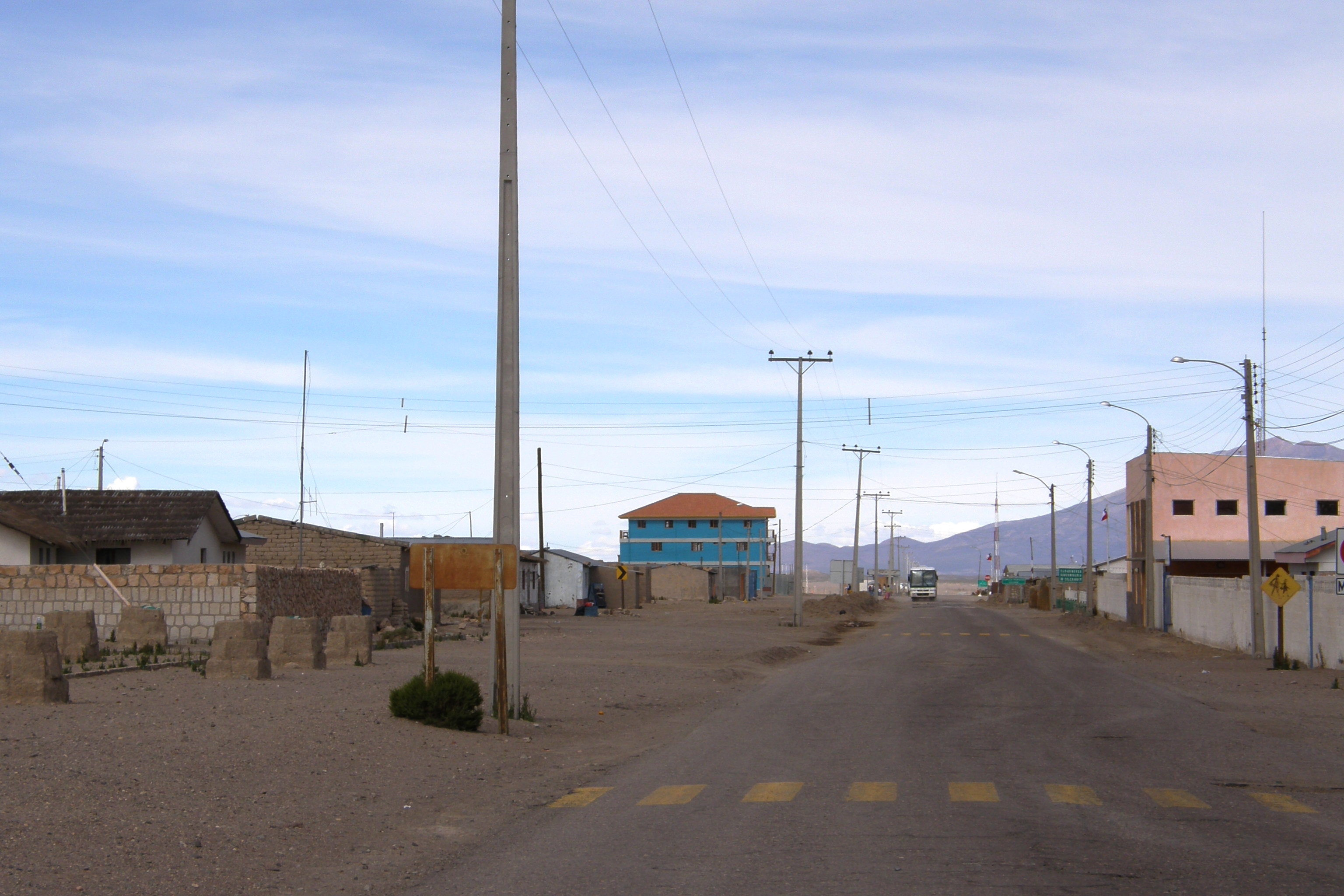 Main street (road A-55) in Colchane, municipality of Colchane,region I, Chile